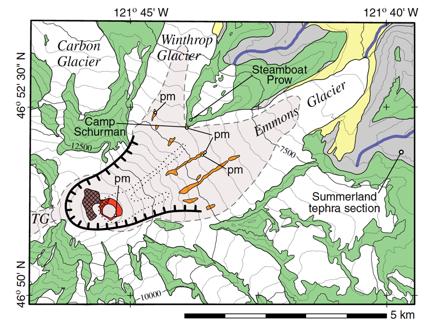 Detailed map of Mount Rainier's summit and northeast slope showing upper perimeter of Osceola collapse amphitheater (hachured line), approximate area of young summit cone (dashed line and shaded), Emmons–Winthrop high-Sr lava flows (orange), east summit crater lava flows (red and dotted line where concealed), west summit crater (mauve), area of summit hydrothermal alteration (cross pattern), Pleistocene lava flows (green), Tertiary basement (gray), and glacial deposits (yellow). Paleomagnetic measurement sites (pm) conducted by Vallance, TG is Tahoma Glacier. Contour interval 500 ft (152 m), index contours every 2,500 ft (762 m). Marginal ticks and internal crosses mark latitude and longitude.